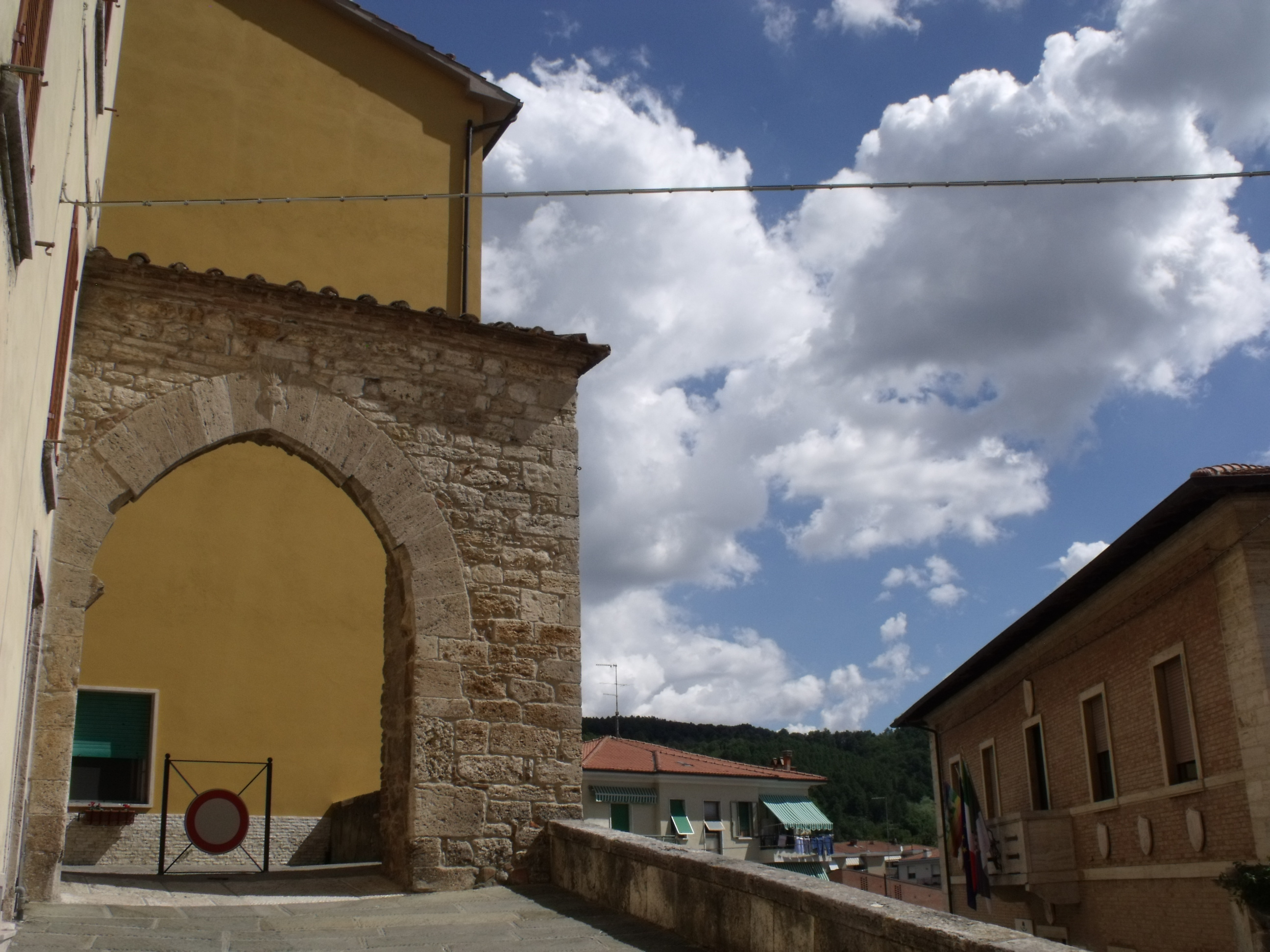 Porta Sant’Antonio and (new) Townhall in Rapolano Terme, Crete Senesi, Province of Siena, Tuscany, Italy